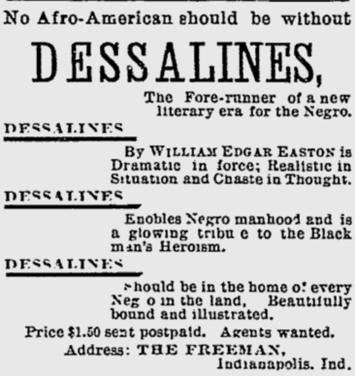 This is an advertisement for Dessalines, an 1893 play by William Edgar Easton, which appeared in an 1893 edition of The Freeman, a newspaper in Indianapolis, Indiana.